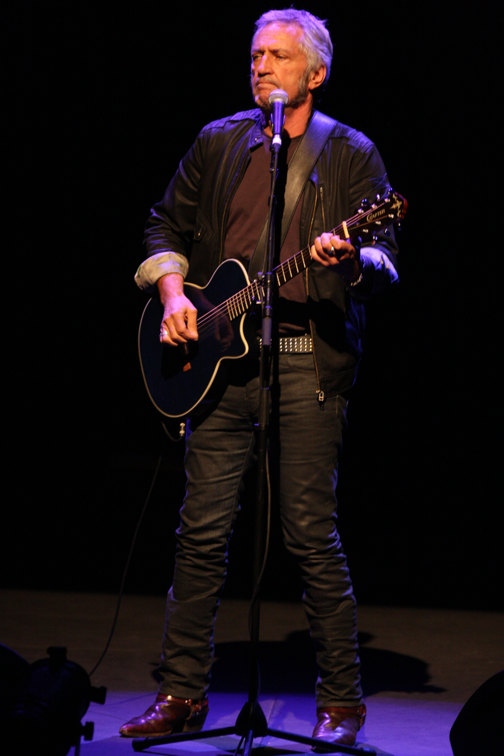 Looking Through a Glass Onion' tour - Sydney; John Waters to perform tonight at Theatre Royal John Waters stars in this critically-acclaimed production that pays homage to the music, mystery and memory of John Lennon. Initially created by John Waters and Stewart D'Arrietta in 1992 as a two-man show, Looking Through a Glass Onion was an instant success. The show now returns twenty years later and will tour Australia one final time before heading to the United States. Rather than being a cut-and-paste biography of John Lennon and covering his original recordings, this stage production explores the essence of the music icon through song and spoken word. On stage, with shadows from the lighting arrangement fluttering over his face, John Waters shies away from imitating the artist. Though he is so emotive in his performance, it lulls the audience into believing anything is possible. It is part concert and part biography. The tour will visit the Dunstan Playhouse in Adelaide on the 27th and 28th of April; Chapel Off Chapel in Melbourne from the 2nd to the 6th of May; the Theatre Royal in Sydney on the 11th of May; Newcastle City Hall on the 12th of May; The Concourse back in Sydney on the 13th of May; The Arts Centre on the Gold Coast on the 17th of May and the Astor Theatre in Perth on the 25th and 26th of May. Venue: Theatre Royal, 108 King Street, Sydney Date: Friday, May 11, 2012 Website: Websites John Waters official website Sue Mac Media Theatre Royal Eva Rinaldi Photography Flickr Eva Rinaldi Photography Music News Australia